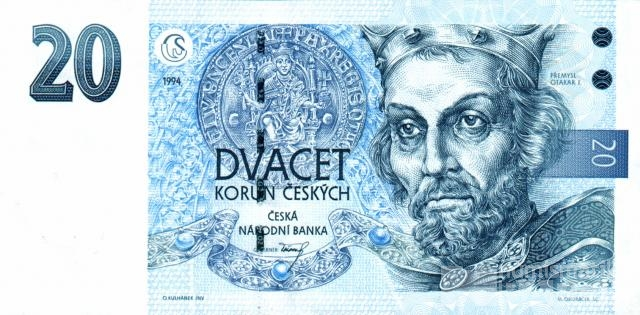 Obverse of Czech koruna twenty crowns bill.